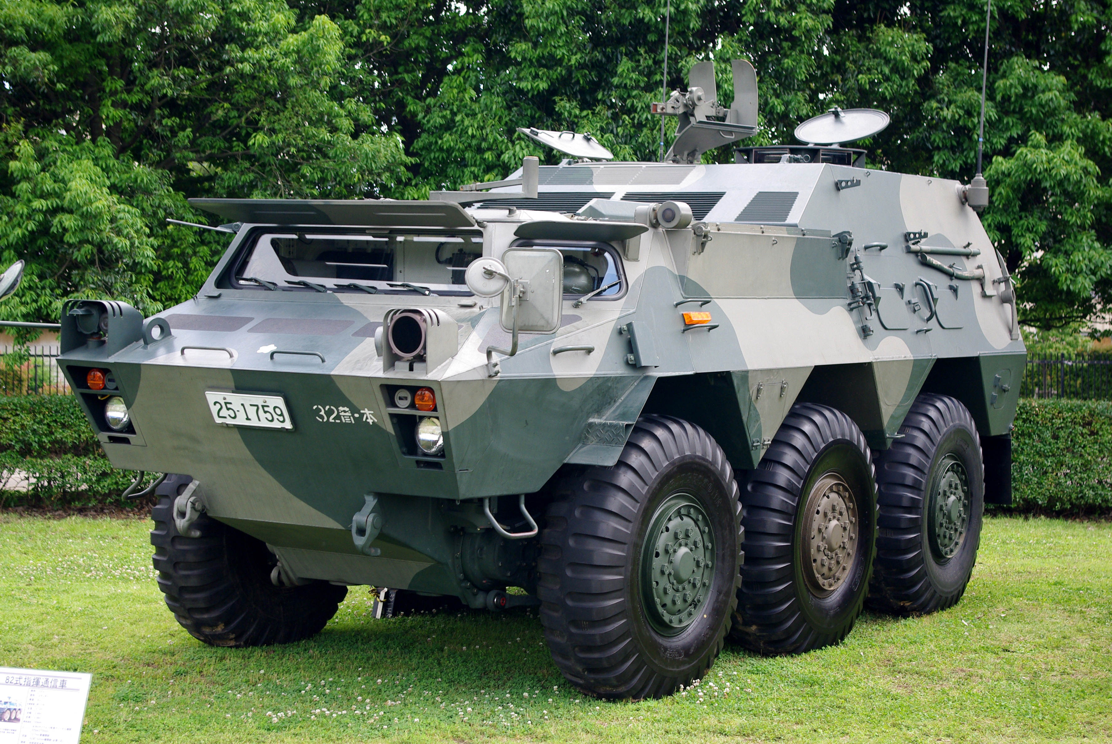 JGSDF Type82 Command Communication Vehicle,HQ CO./32nd Infantry Regiment.Taken by Los688,in Camp Omiya,Japan,at 10-Jun-2012.PD-self 陸上自衛隊 82式指揮通信車、第32普通科連隊本部管理中隊。2012年06月10日、大宮駐屯地で撮影。